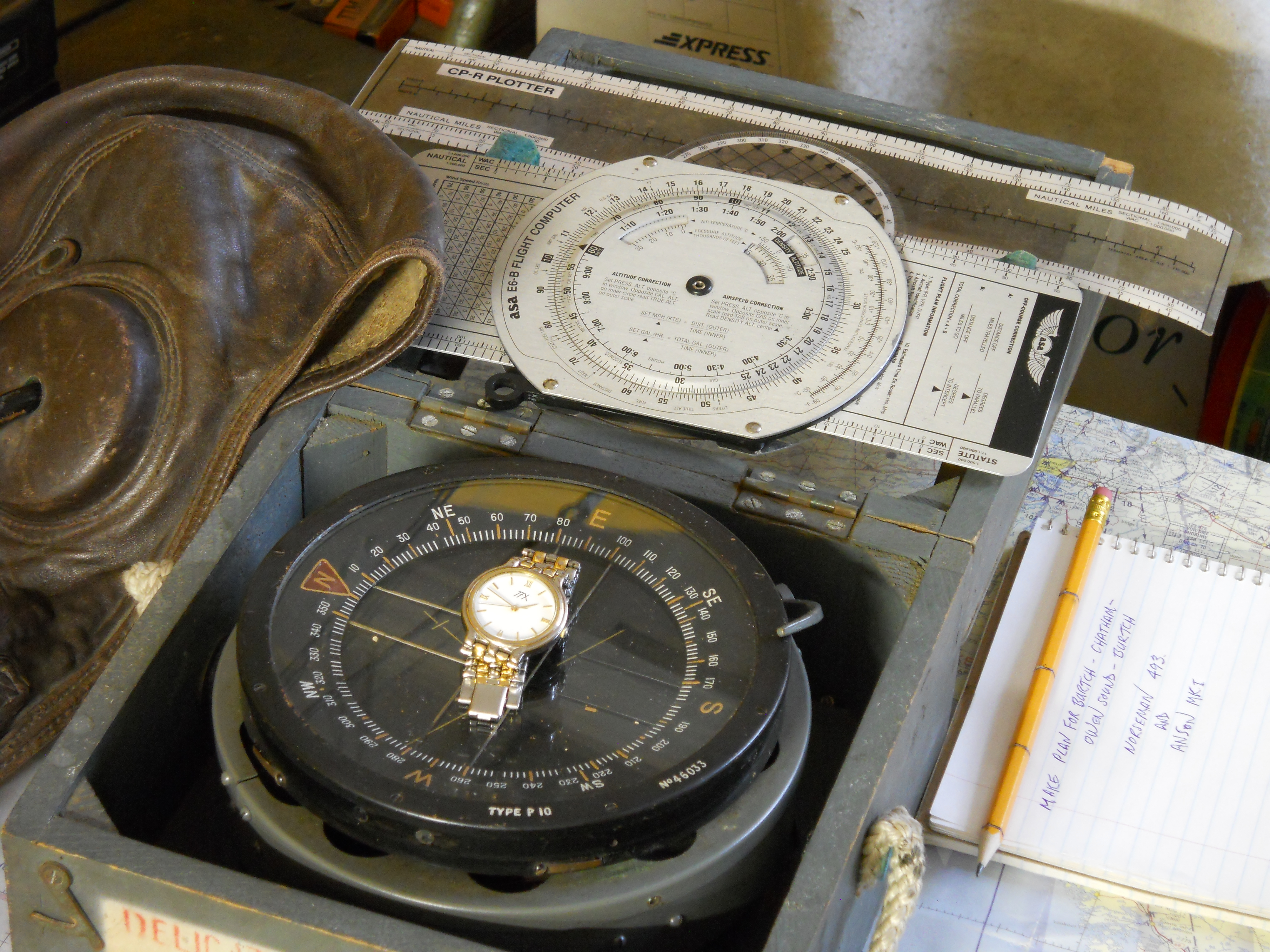 Basic Navigation Tools from the BCATP era. The British P10 Magentic Compass and leather flying helmet are authentic and from the period. In a Spitfire or Hurricane this type of compass would be mounted on the floor in between the pilot's legs. The chart, E6-B, plotter, pencil notebook, and watch are circa 2000. Intervals of 10 nautical miles are marked off on the pencil. P10 compass, wooden case, and flying helmet courtesy of Tom Dietrich, Tiger Boys Aircraft Works. The ASA E6-B is still available at pilot supply shops in 2013.